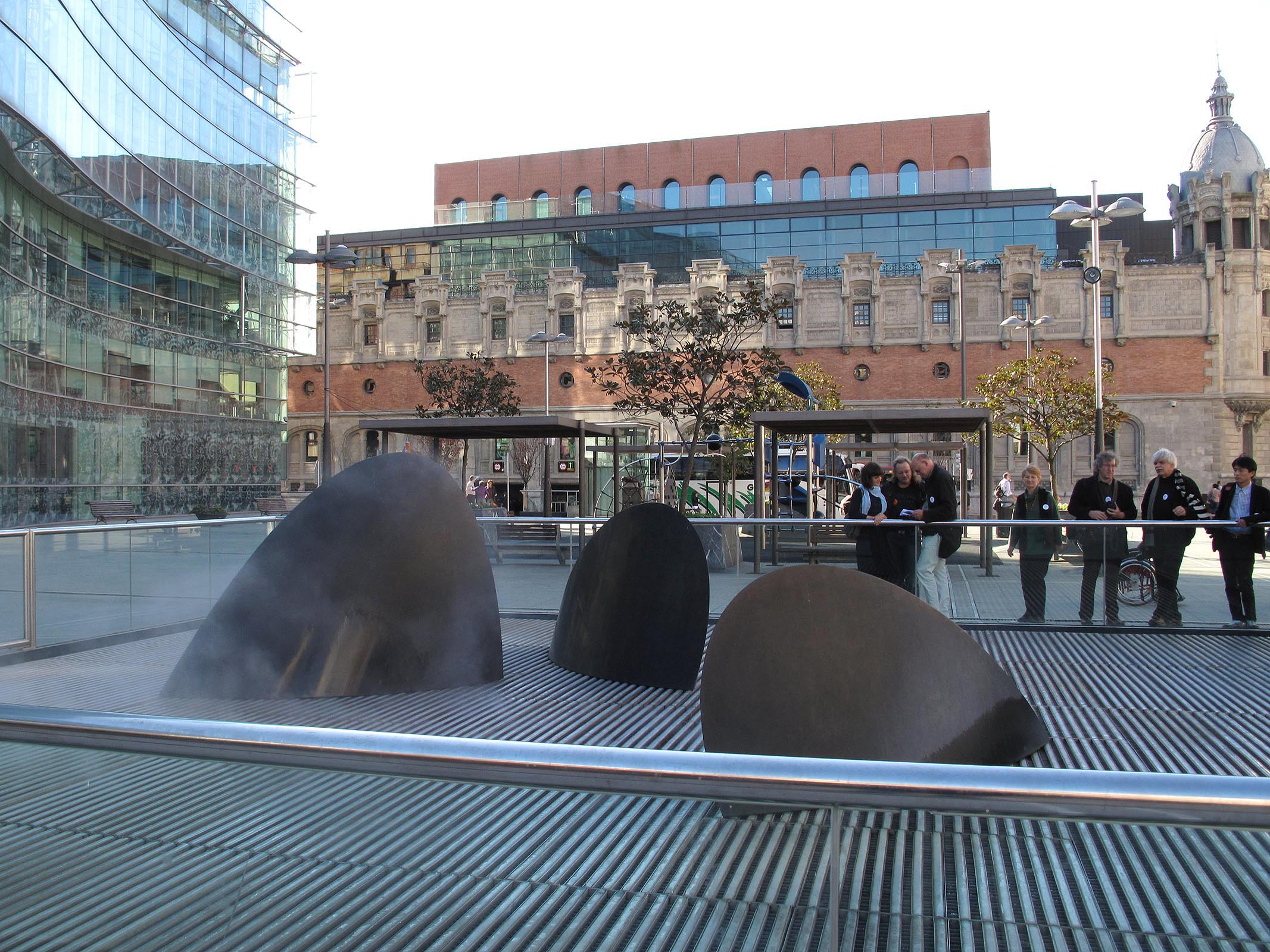 Lorenzo Fernandez Ordonez, Fuente de la niebla, 2011, – Spain, Bilbao, Plaza Bizkaia